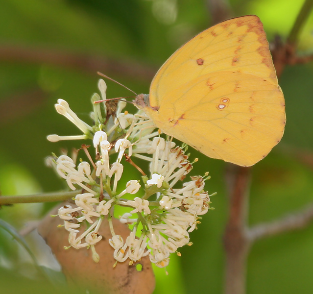 Common Emigrant Catopsilia pomona on Lokhandi, Gurani, kurati, gorbale or raikura Ixora brachiata in Kinnerasani Wildlife Sanctuary, Andhra Pradesh, India.